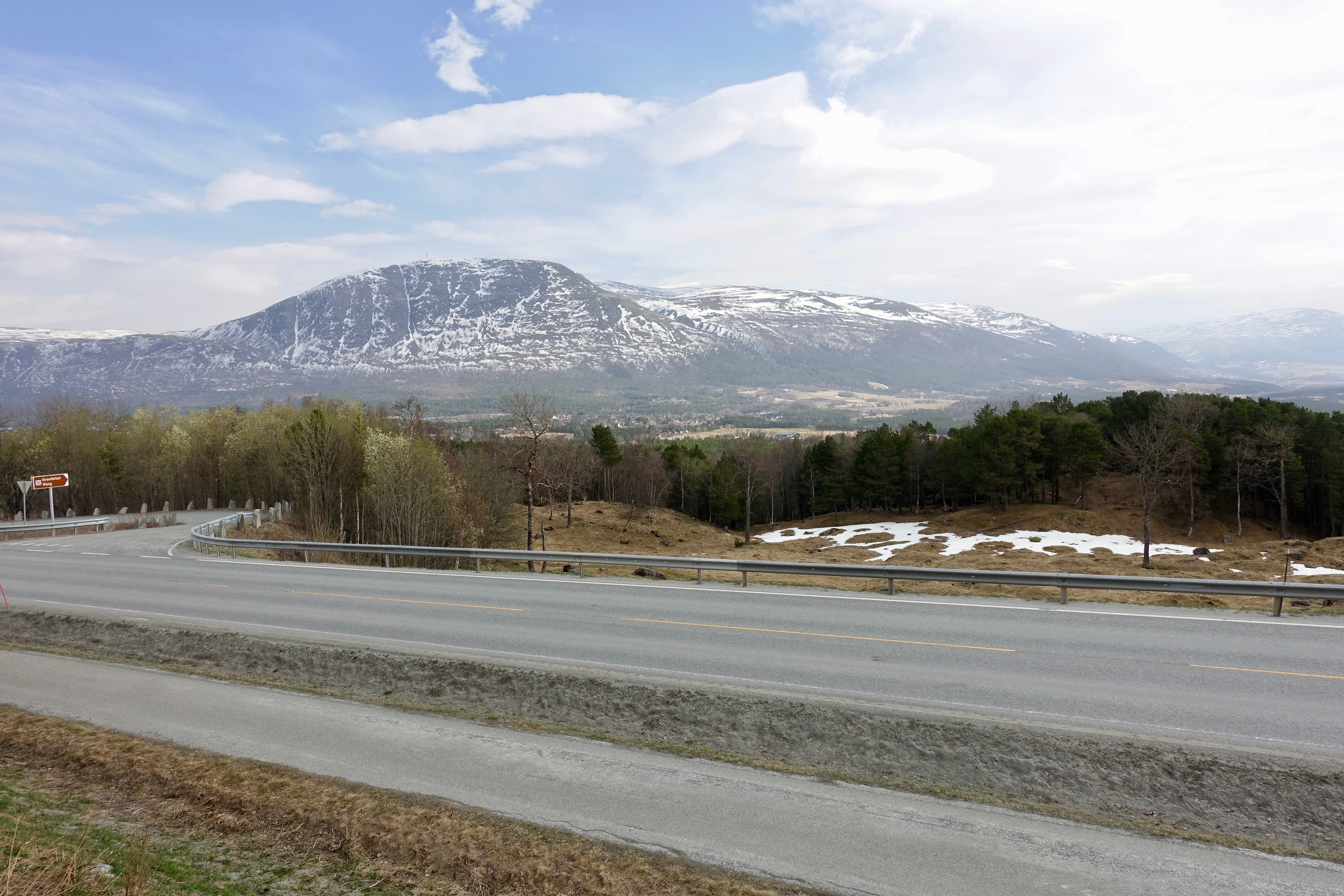 The Vang Burial Site ("Vangfeltet" in Norwegian) in Oppdal, Trøndelag is Norway's largest burial field with ca. 900 smaller tumuli/mounds from the iron and Viking age. View towards Sunndalsvegen (Riksveg 70), Vangsfeltet, Oppdal, Allmannberget mountain, birks, road to parking site, etc. ("Vang gravfelt"). Photo taken on 2019-04-25 (showing springtime with naked trees and snow on ground)